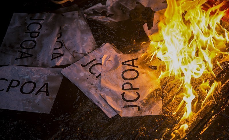 Protest against United States withdrawal from the Joint Comprehensive Plan of Action in front of the United States Embassy in Tehran